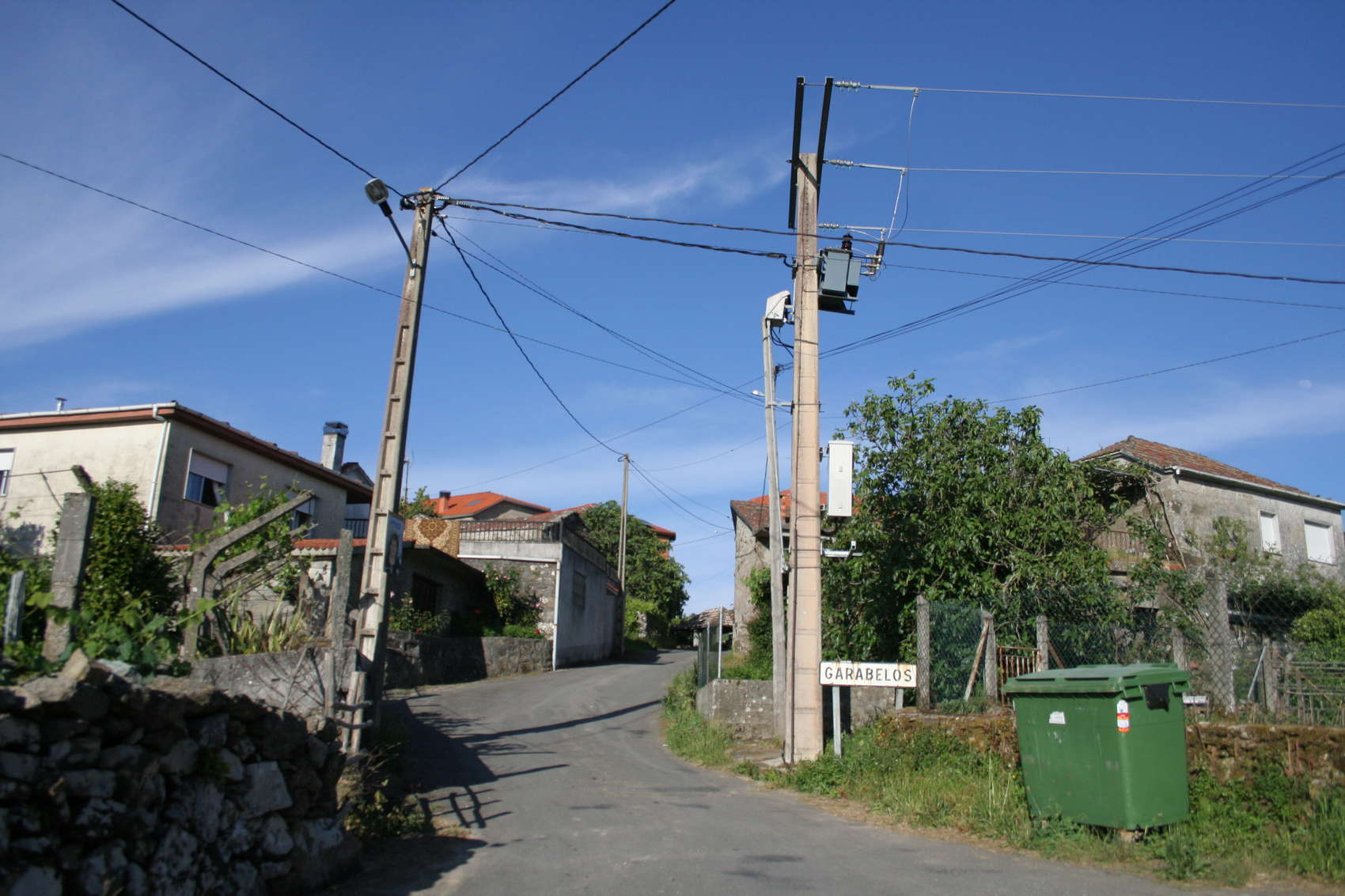 Garabelos, San Lourenzo de Fustáns, Gomesende (Spain)